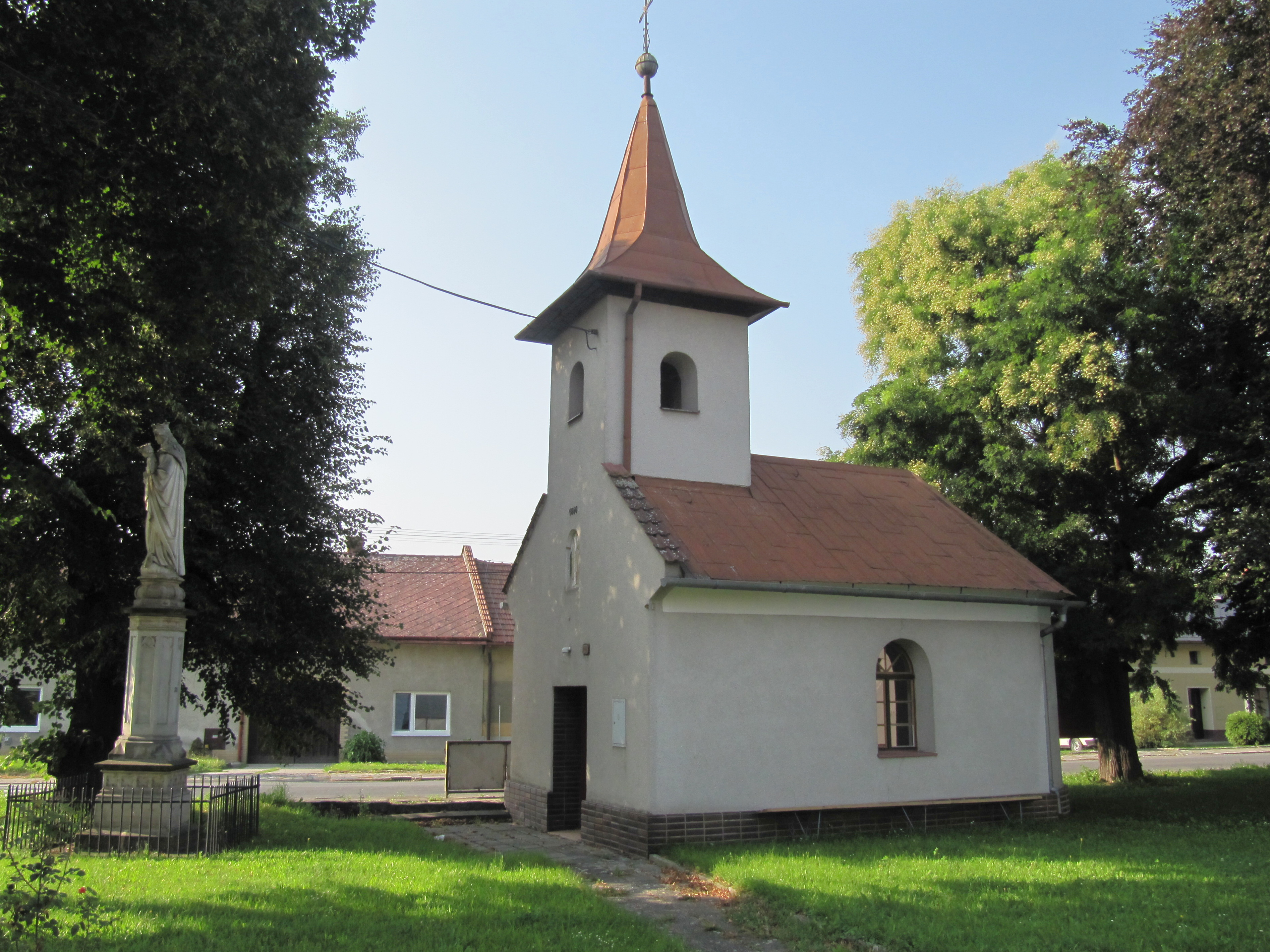 Grymov in Přerov District, Czech Republic. Chapel of St. John the Baptist in the facade dated 1840. This photograph was taken within the scope of the third year of the 'Czech Municipalities Photographs' grant.